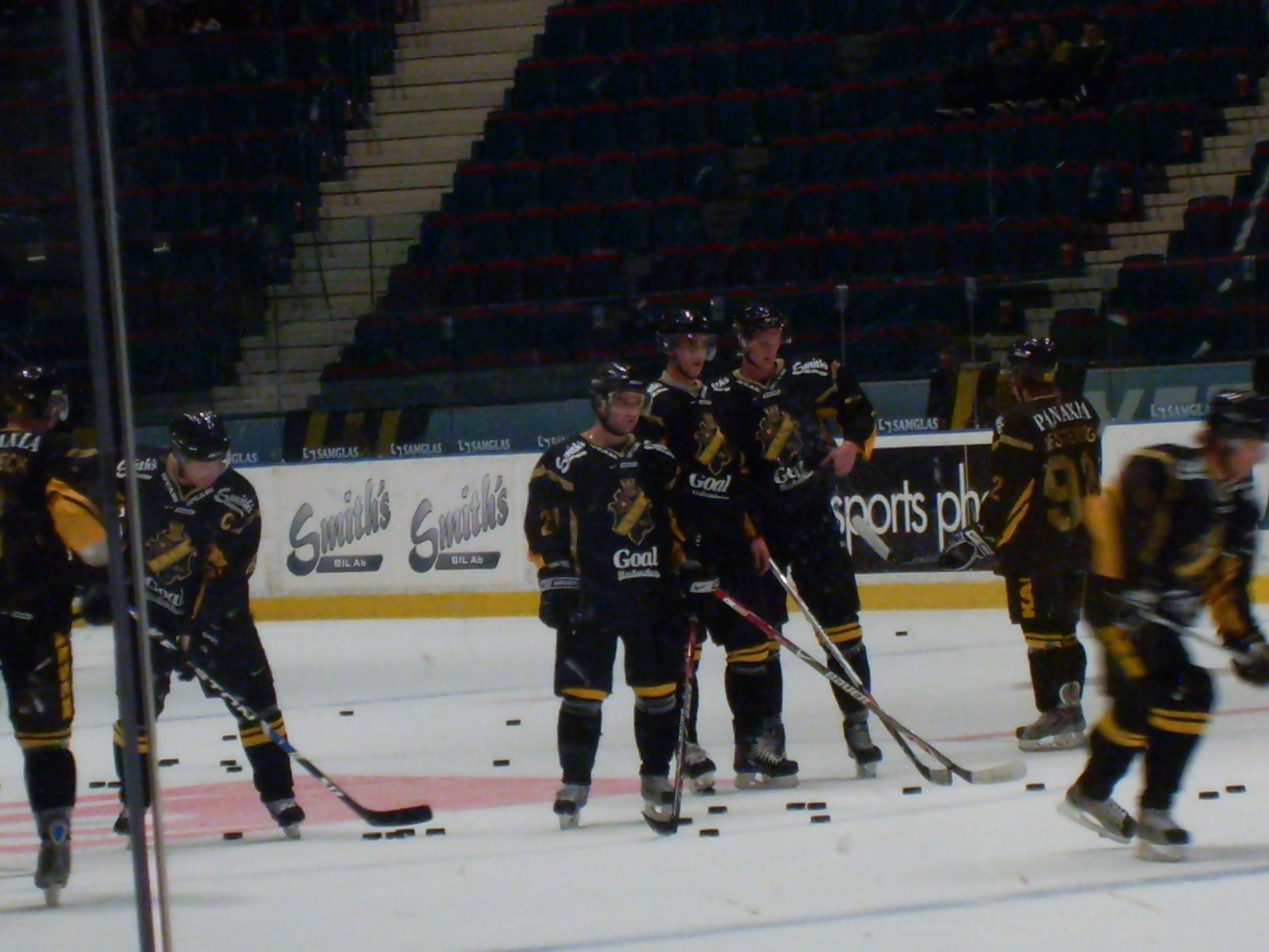 Ice hockey players from AIK, Sweden.